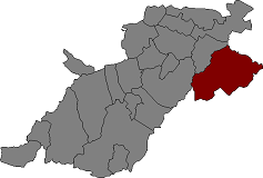 Location of Pontils in Conca de Barberà